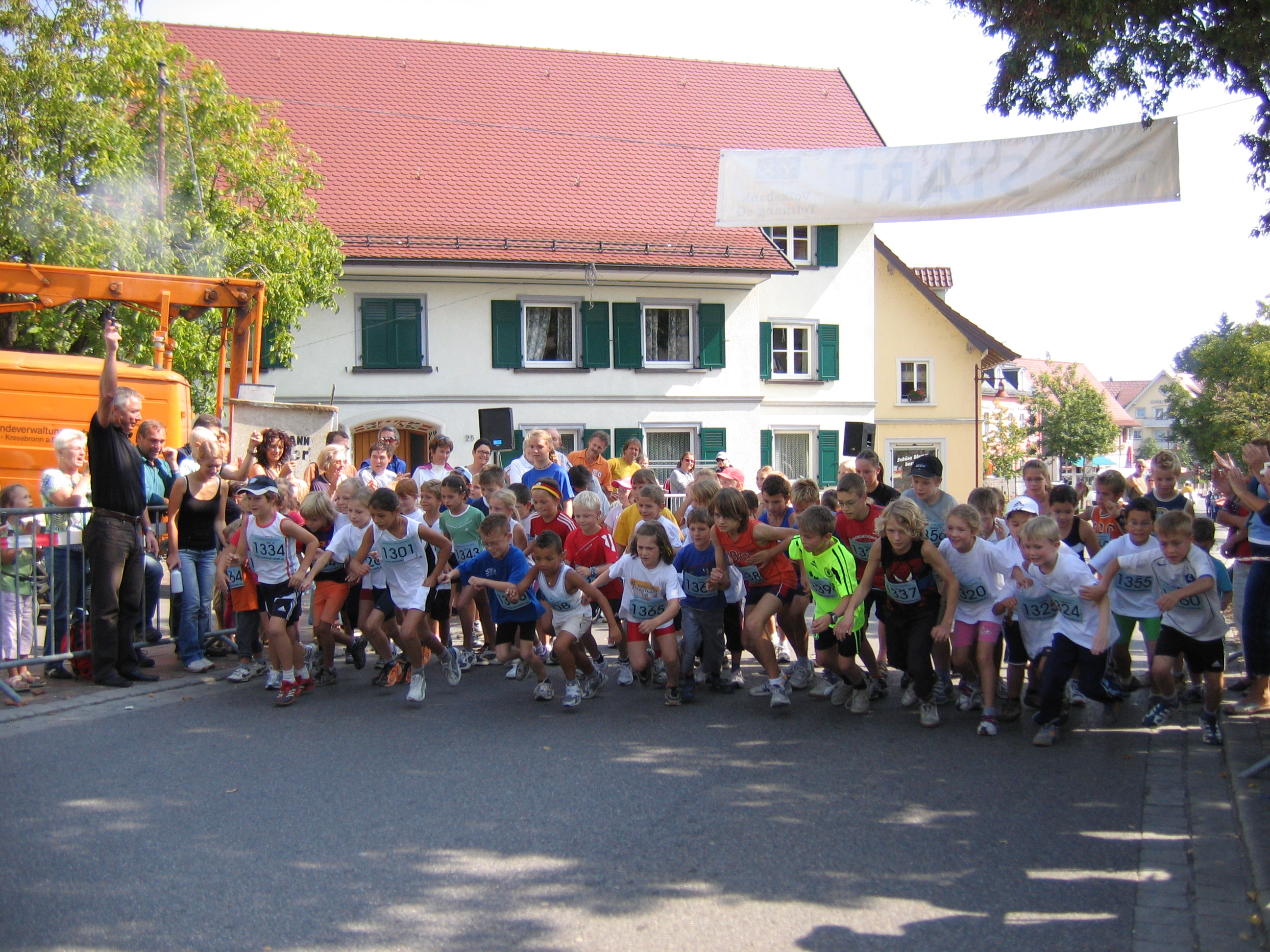 Germany - Baden-Württemberg - Bodenseekreis - Kressbronn am Bodensee: 35th Bodensee-Marathon (2007), start of the Mini-Half marathon (2,1 km)